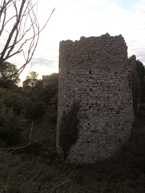 Cooling Castle. Part of Cooling Castle. The habitable part of this castle is the residence of musician Jools Holland.